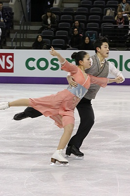 Maia Shibutani and Alex Shibutani at the World Championships 2013